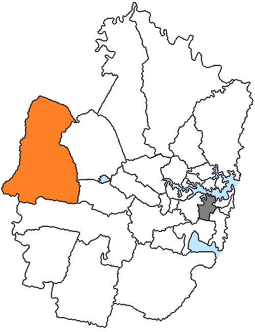 Map of Sydney/New South Wales/Australia, LGA of Penrith City highlighted